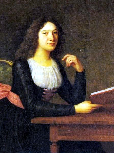 Portrait of Charlotte von Lengefeld (1766-1826), spouse of Friedrich Schiller, oil on canvas, 87,0 x 69,0 cm